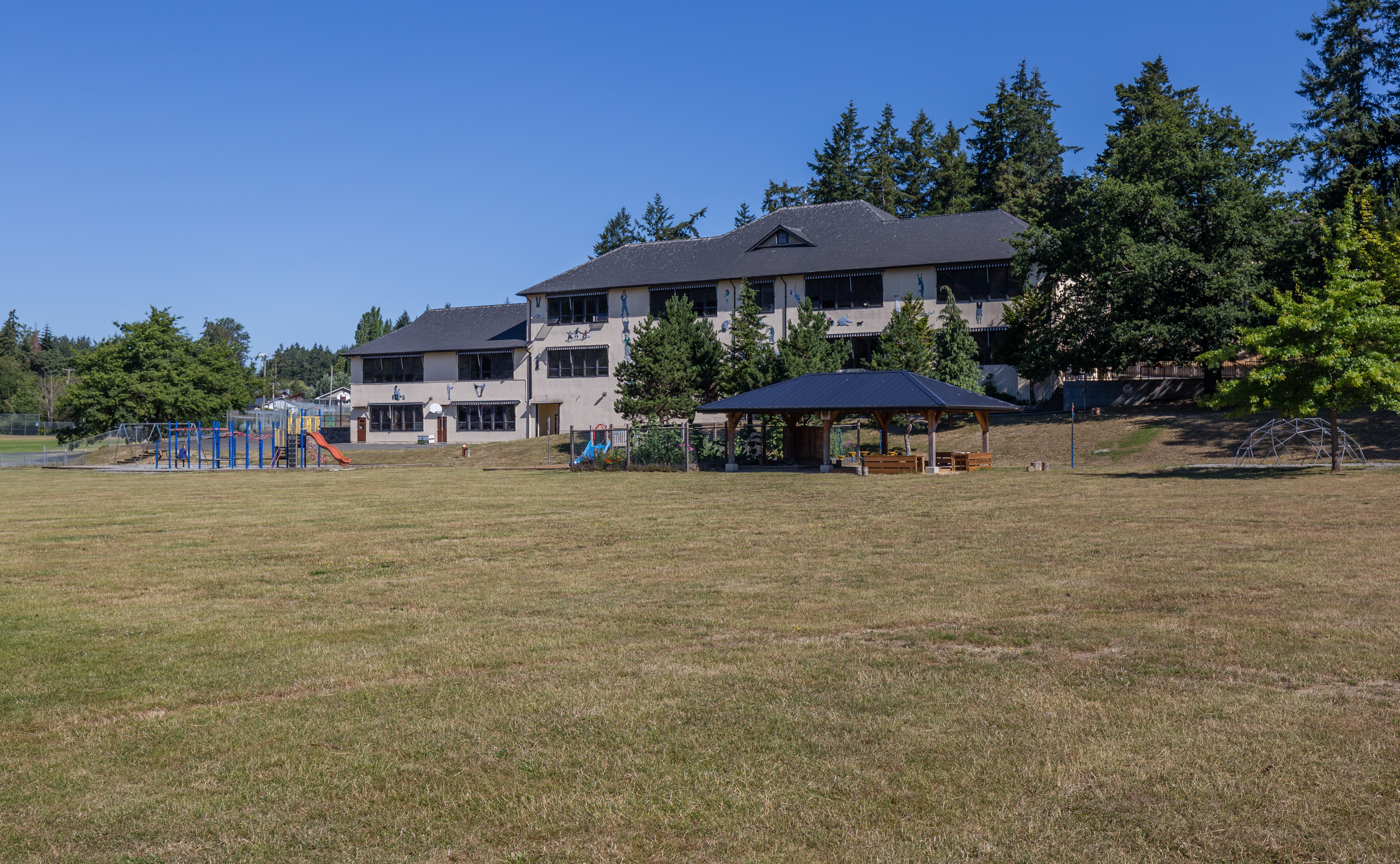 Playground of Salt Spring Elementary. Ganges, British Columbia, Canada